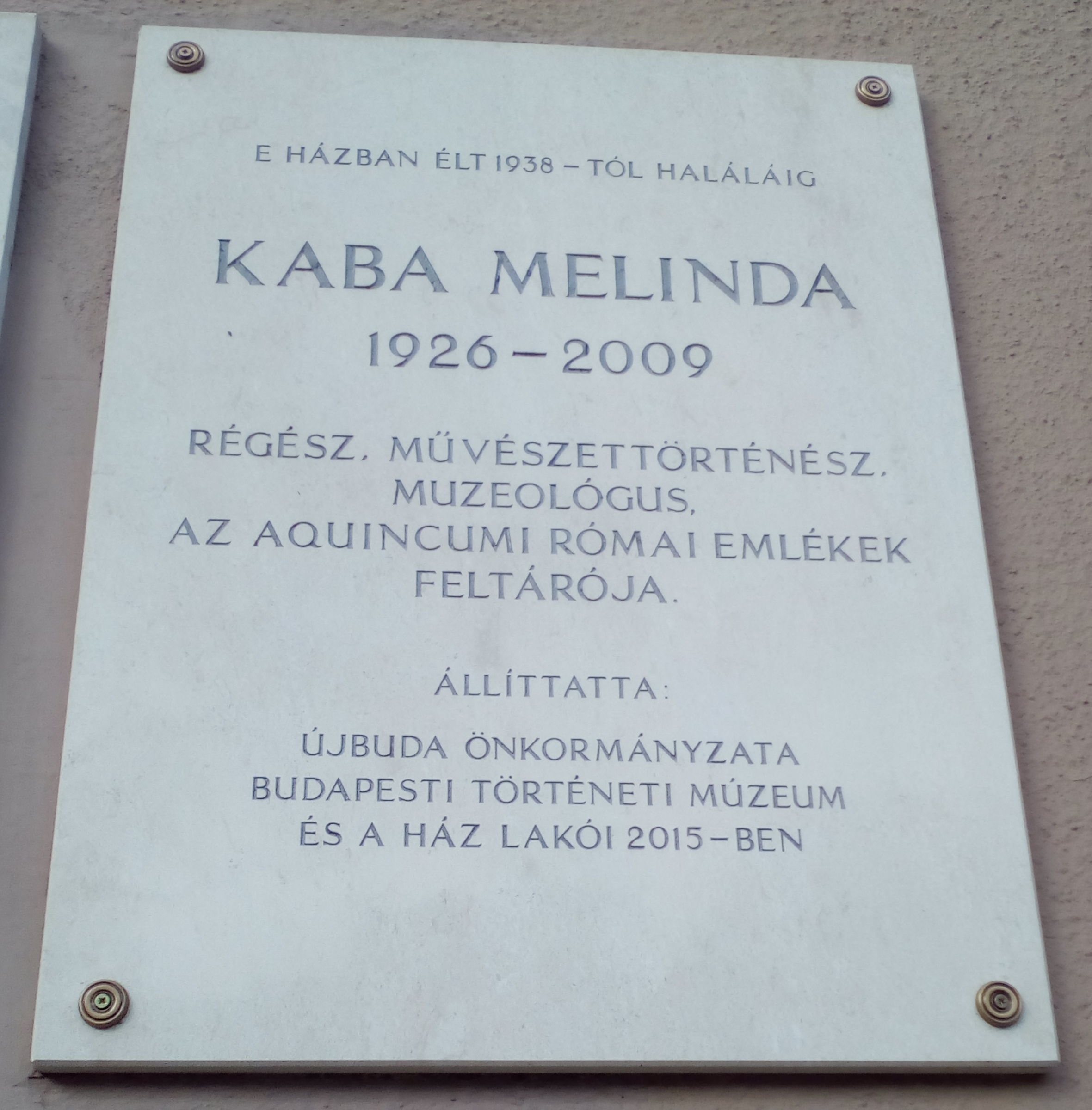 Melinda Kaba commemorative plaque in Budapest District XI, Karinthy Frigyes Street No 24.